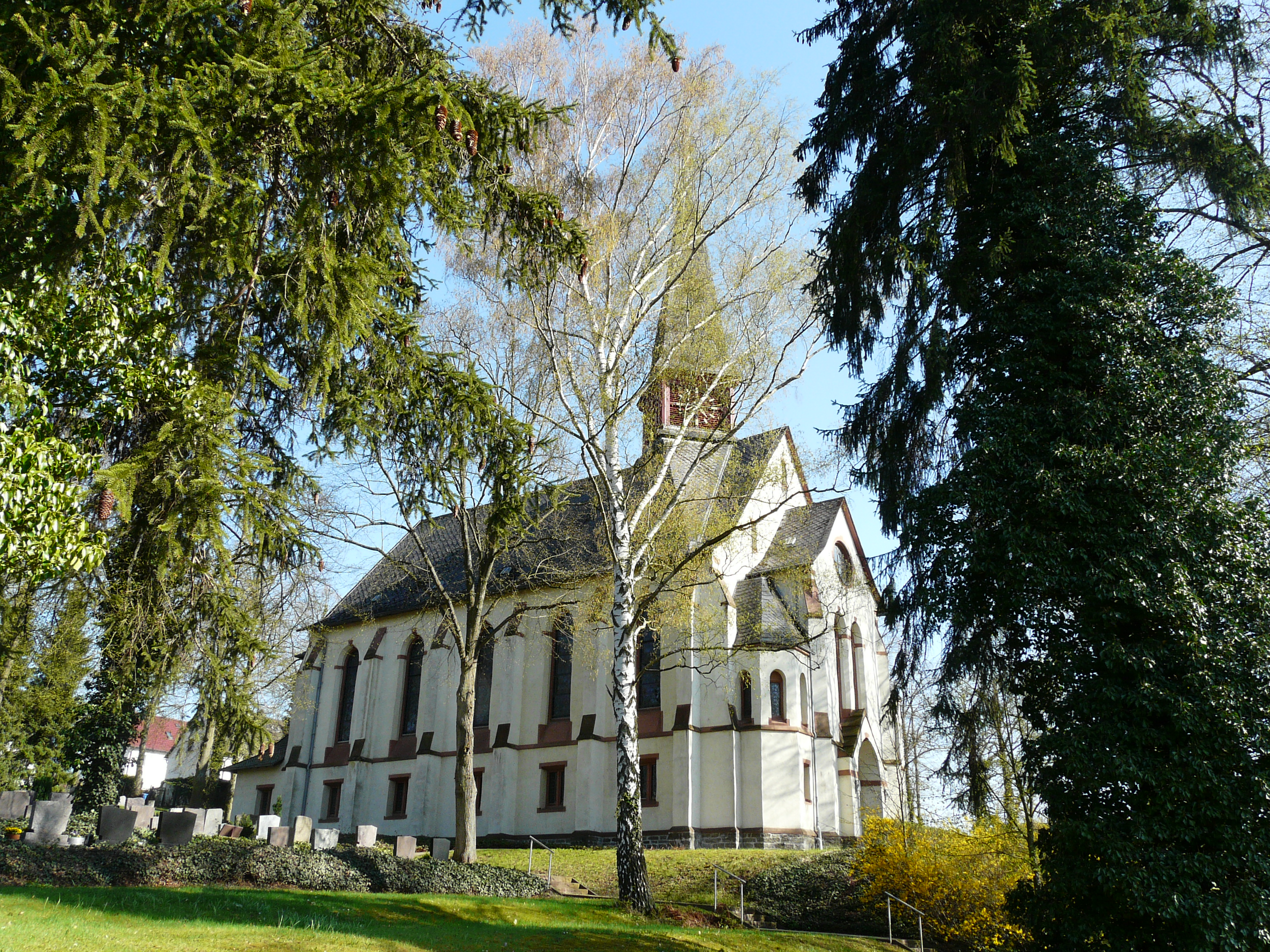 Protestant church of Burgsolms (district Lahn-Dill, Hesse)